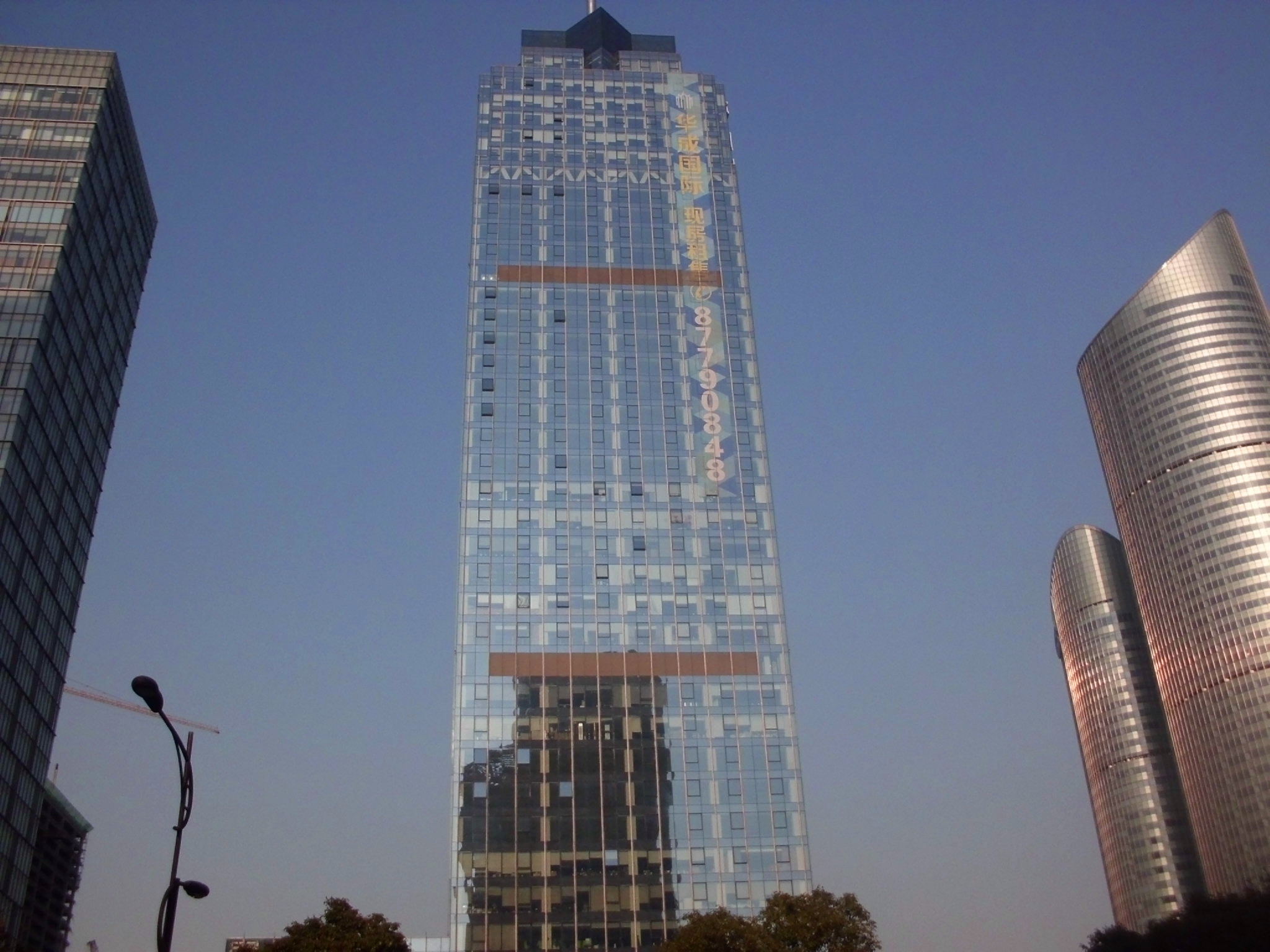 Huacheng mansion